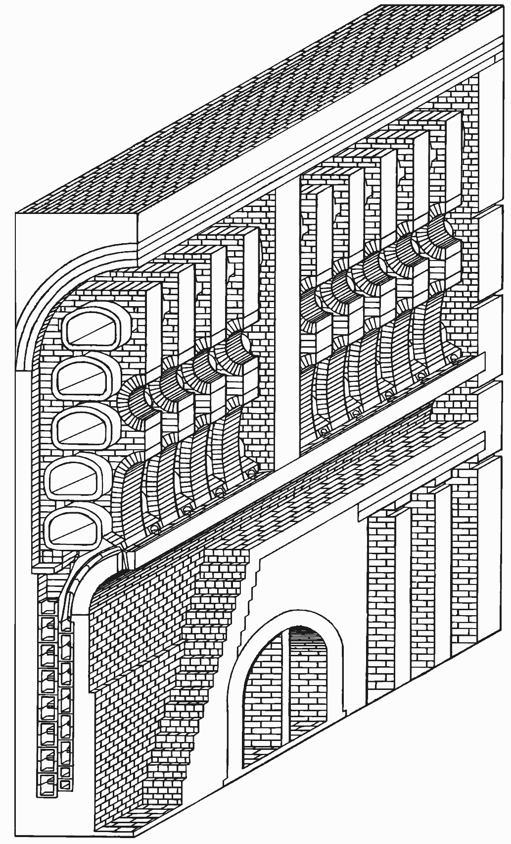 Isometric view, regenerative horizontal retort bench for the production of manufactured coal gas, from: Meade, Alwyne. Modern Gasworks Practice, 2nd Edition. Benn Brothers, London, UK (September, 1921). Pg. 79. Mildly cleaned up.